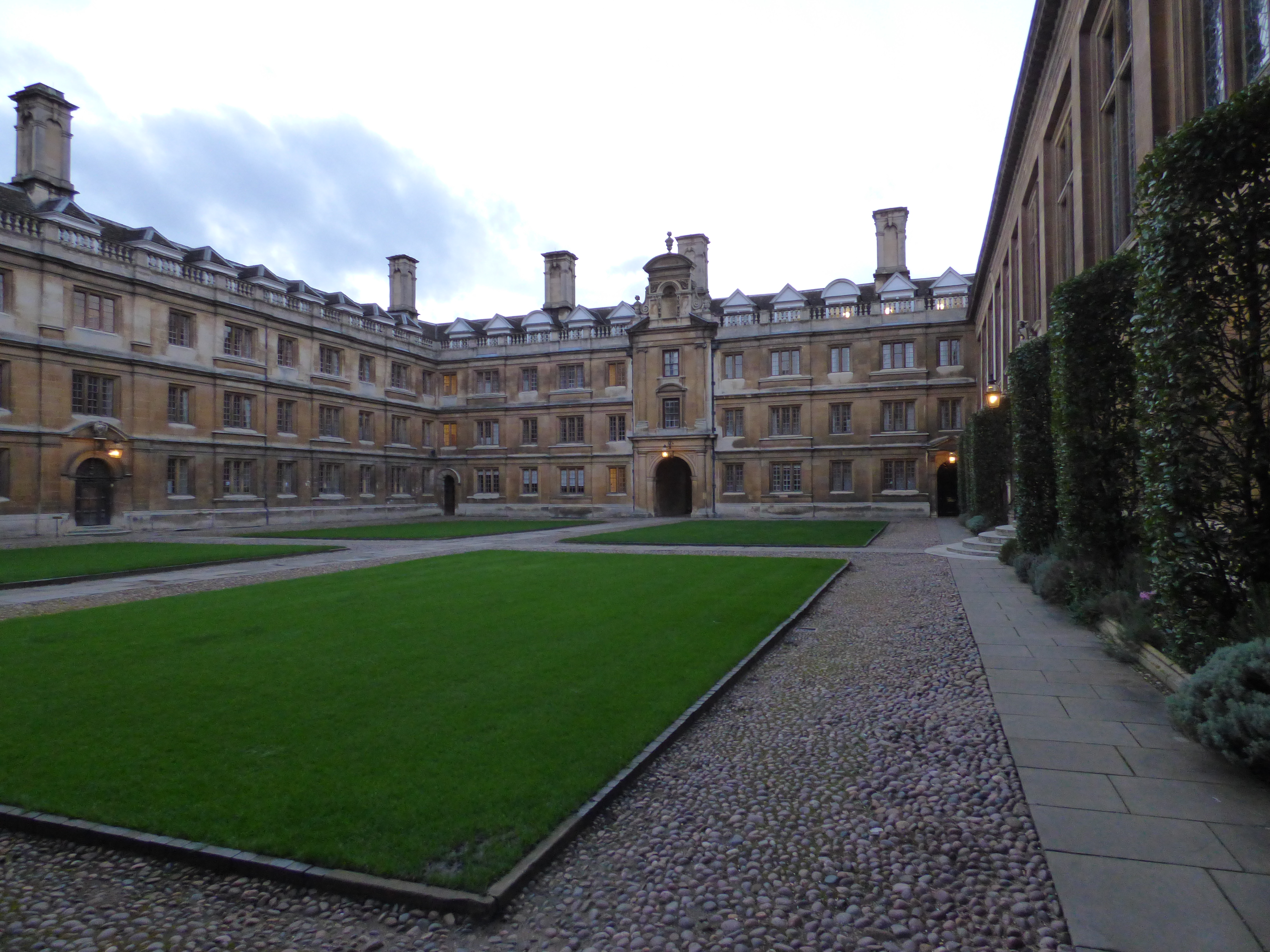 Back of Old Court, inside